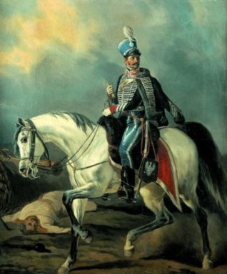 Feliks Sypniewski "Equestrian Portrait", a.k.a. "Mounted Officer" or "Hussar". Oil on canvass.